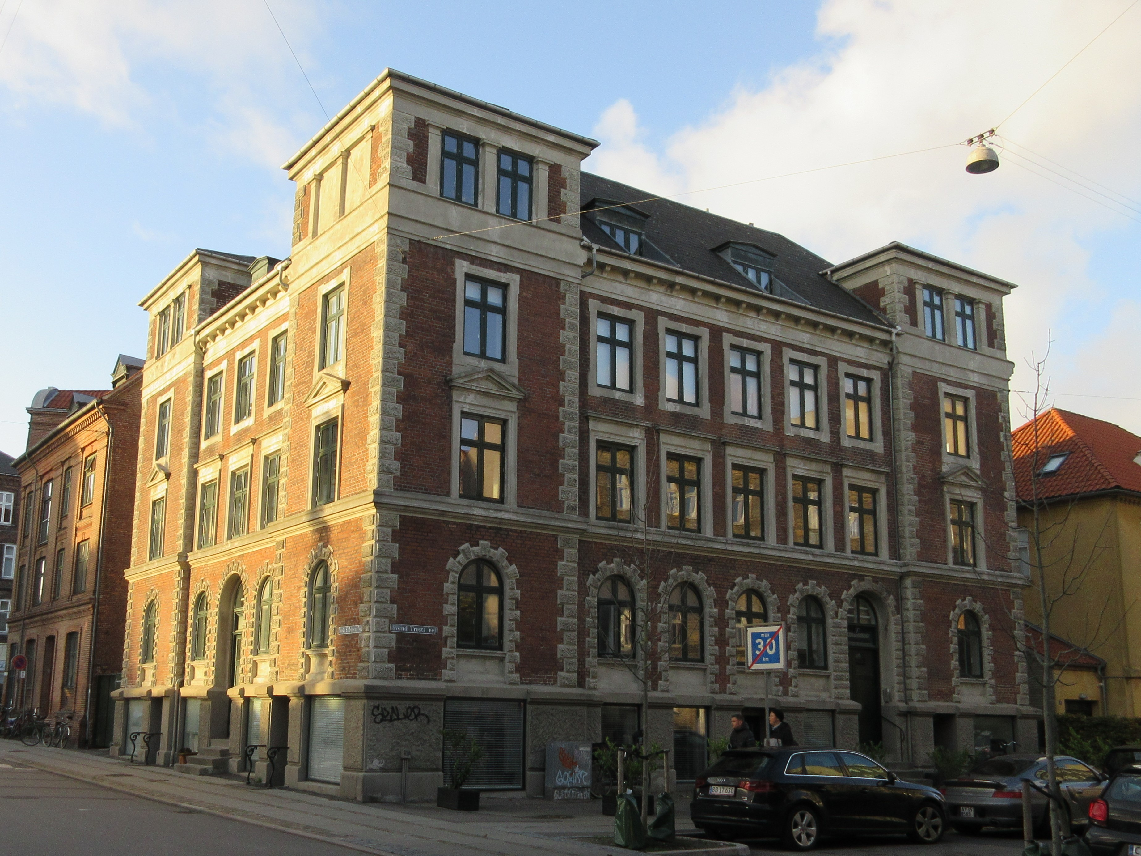 Niels Ebbesens Vej 16 and Svend Trøsts Vej 1 in Frederiksberg, Denmark